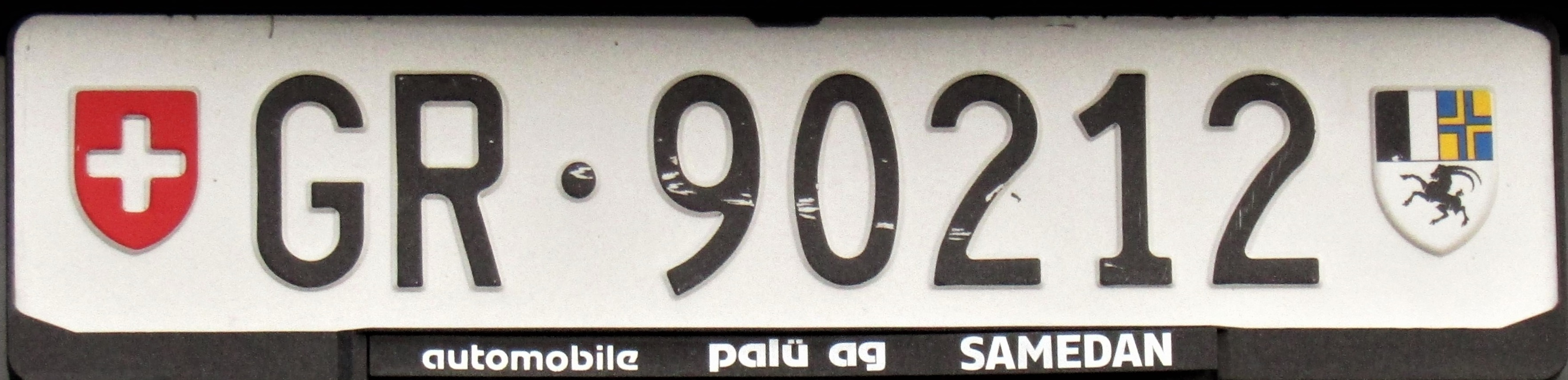 Kontrollschild Samnaun Zollfreigebiet